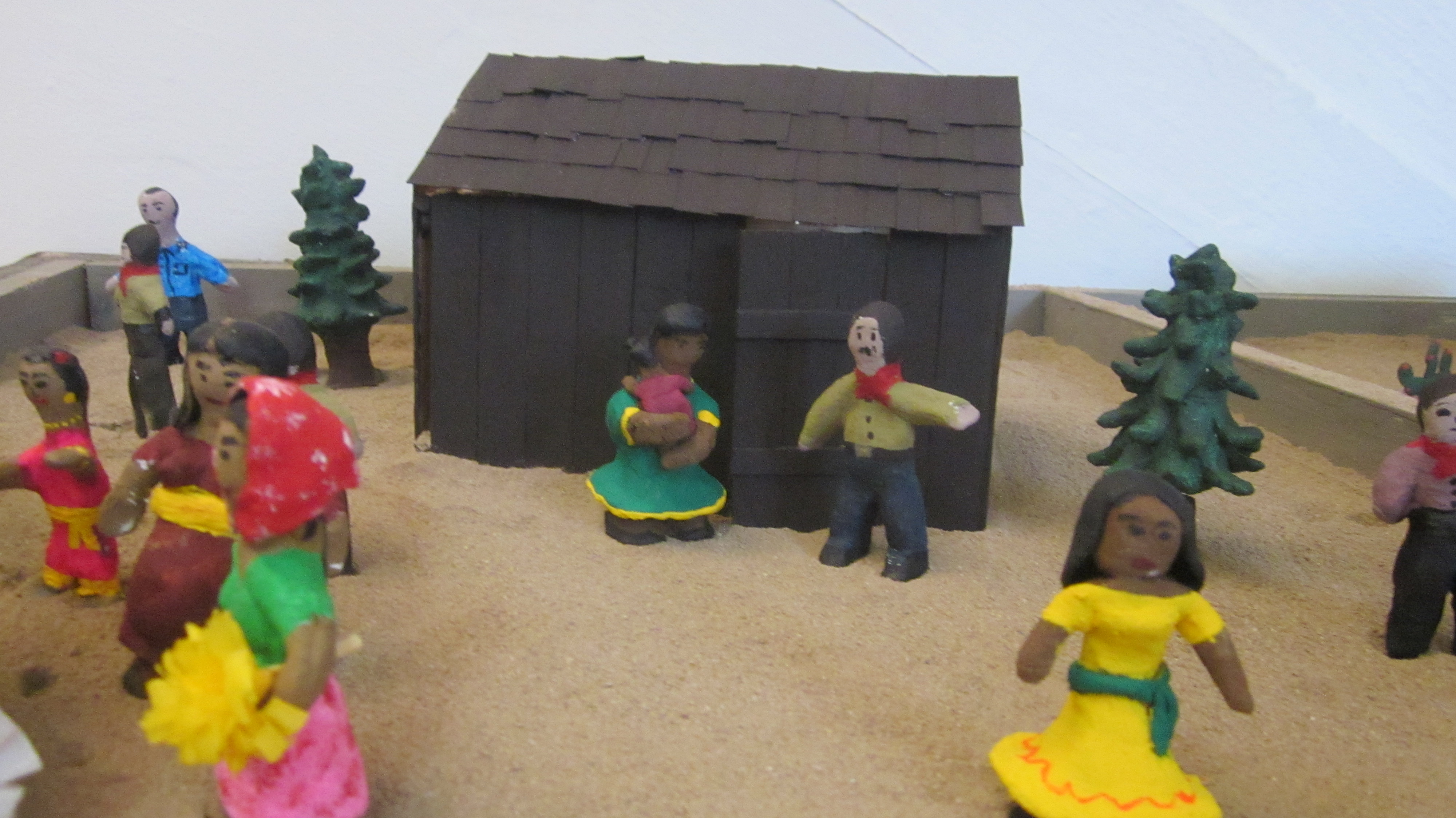 Maqueta de vivienda tradicional o'ob o pima, Museo de Culturas Populares e Indígenas de Sonora, Hermosillo, Sonora, México.